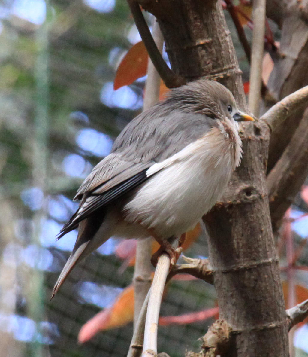 Chestnut-tailed Starling Sturnia malabarica